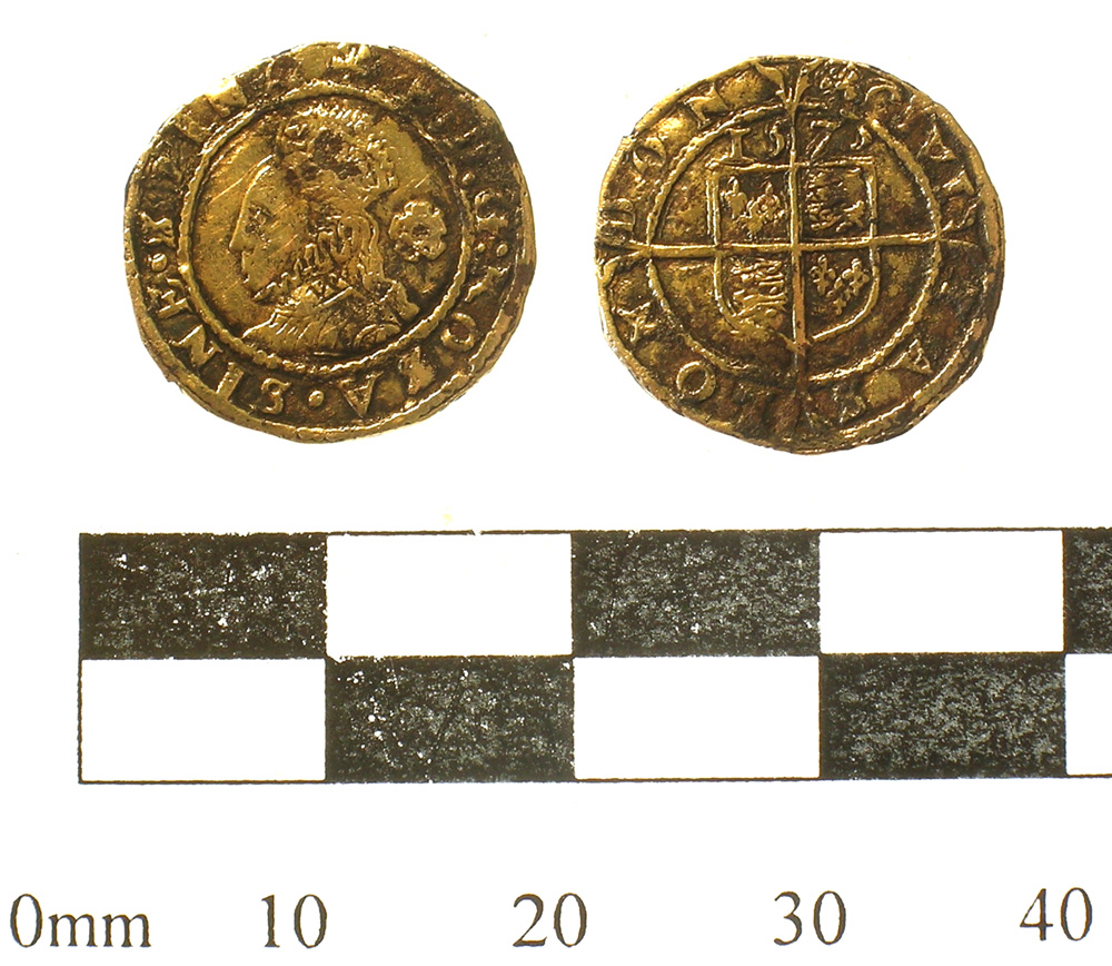 An unusual gold coloured post medieval coin. In appearance, this is a post medieval three-halfpence coin of Elizabeth I, minted in London. The mintmark is an eglantine and the coin date is 157(3). This coin is only listed as being minted in silver but this example appears to have been gilded or coloured gold. Barrie Cook of the British Museum says: “Shakespeare mentions 'gilded twopences', whereby halfgroats could pass muster as half-crowns if you didn't look too closely. I assume something similar is going on here.” The coin is in good condition. It measures 17mm x 16.2mm x 0.5mm, weighing 0.81g.